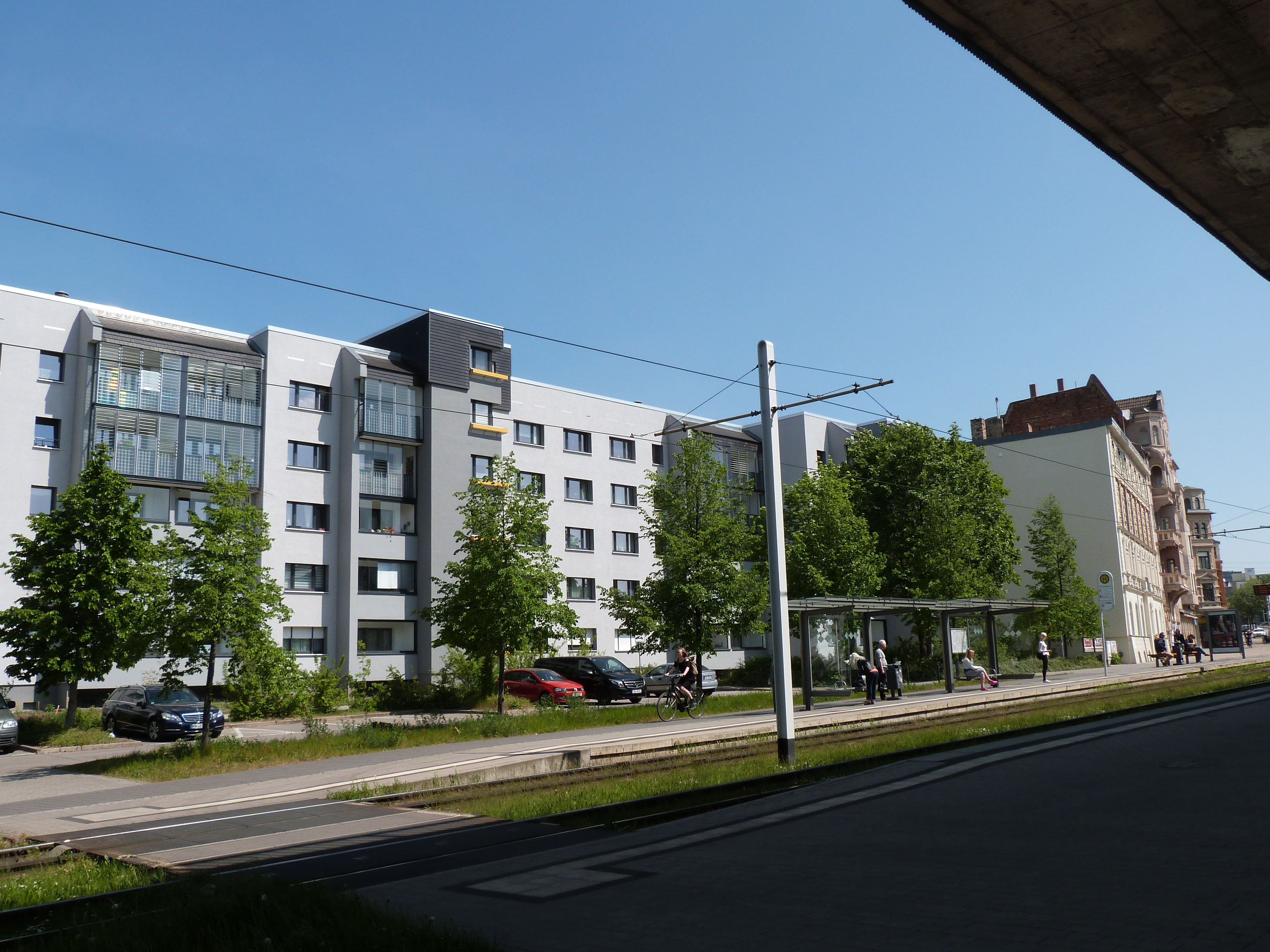 Street Moritzzwinger in Halle (Saale)